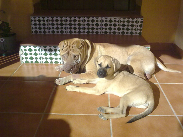 Dosmesticated dogs lay out in a garden